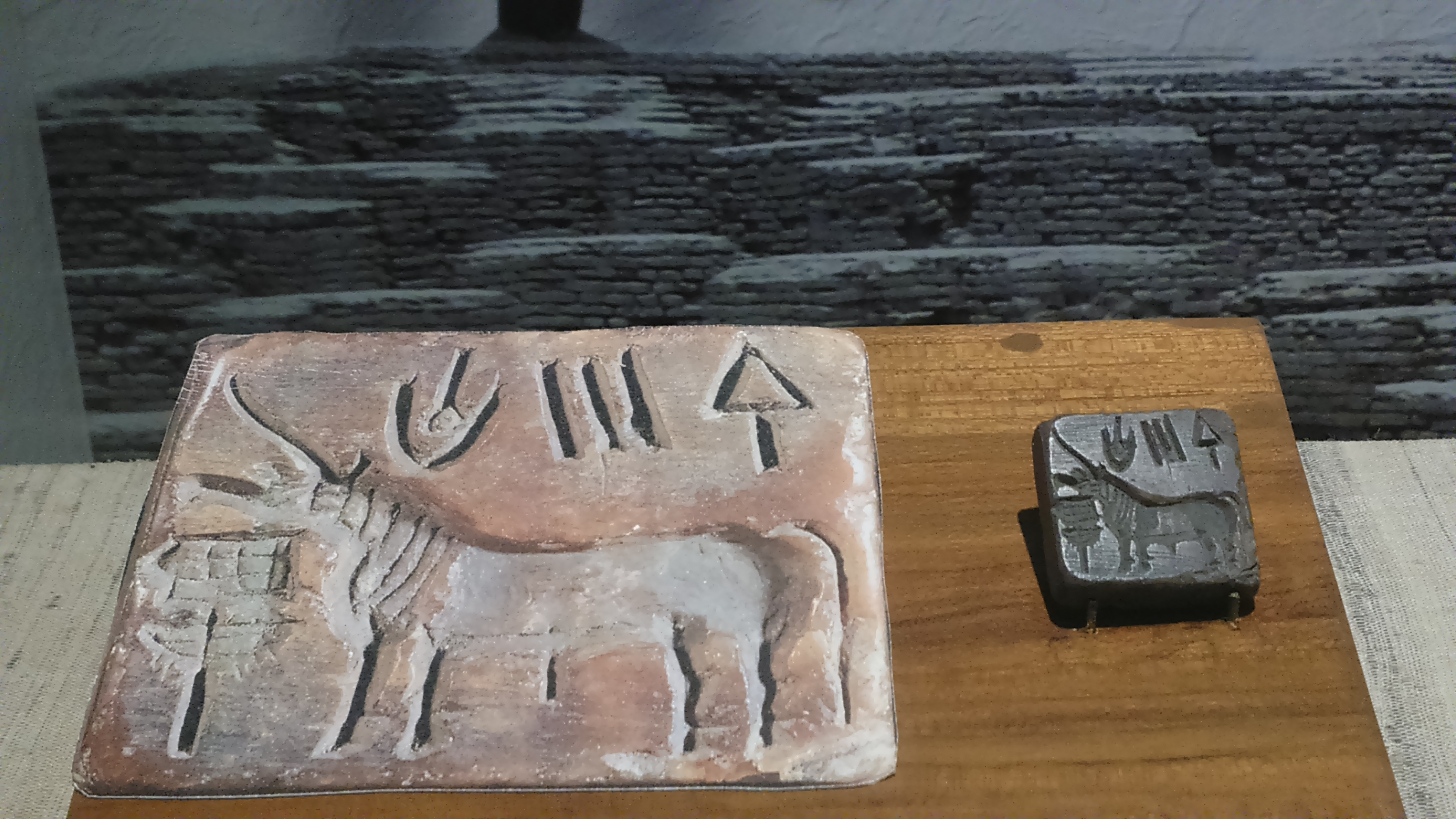 Indus seal unicorn at Indian Museum